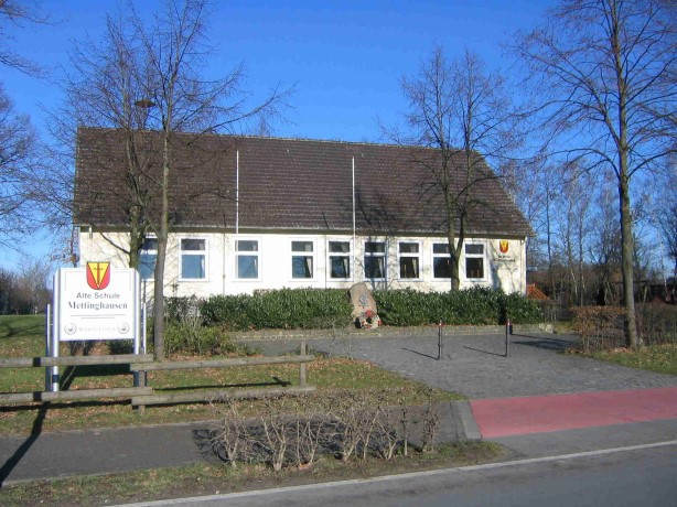 The old school of Mettinghausen, Rebbeke.